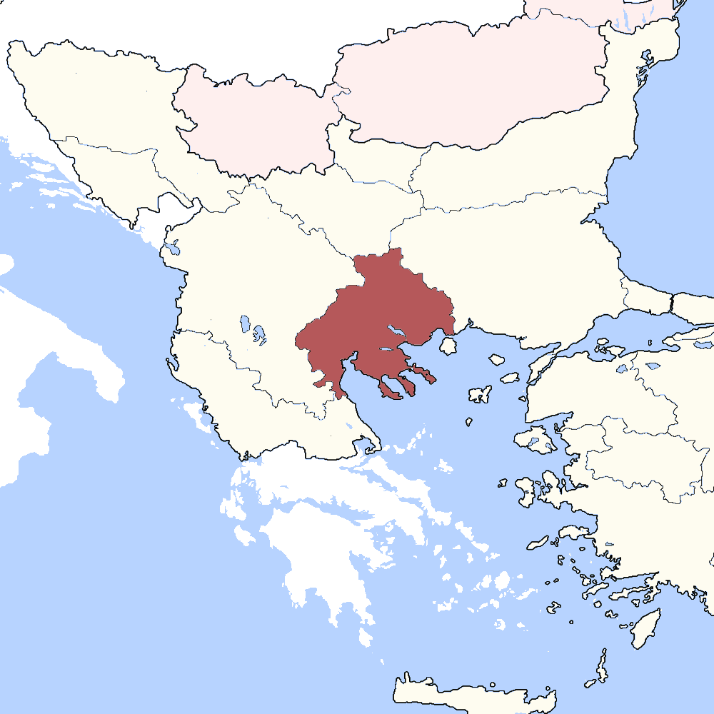 Salonica Eyalet in 1850s. Tributary states of the Ottoman Empire are shown in pink. According to the information of this map: [1]